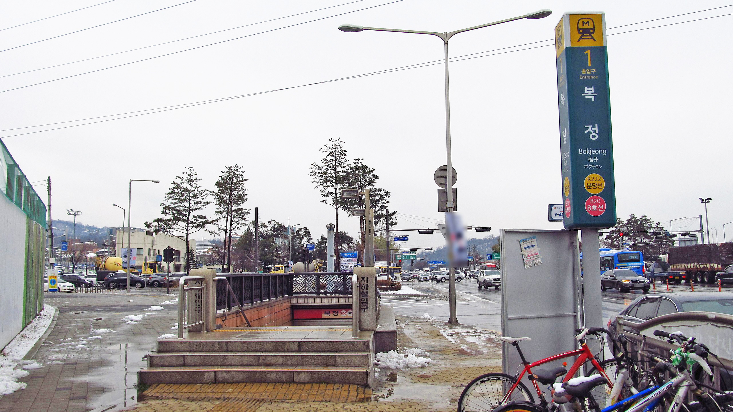 The no.1 entrance to Bokjeong Station on Bundang Line and Seoul Subway Line 8 in Songpa-gu, Seoul, Republic of Korea(South Korea)